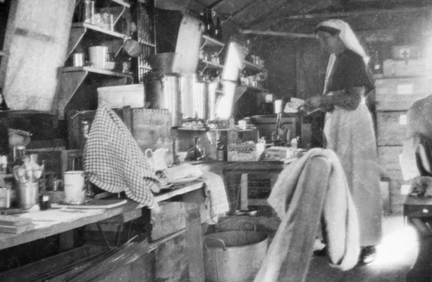 An interior view of the laboratory at No 3 Australian General Hospital situated on Mudros Harbour. The nursing sister is Staff Nurse Fanny Elenor Williams - published 1917